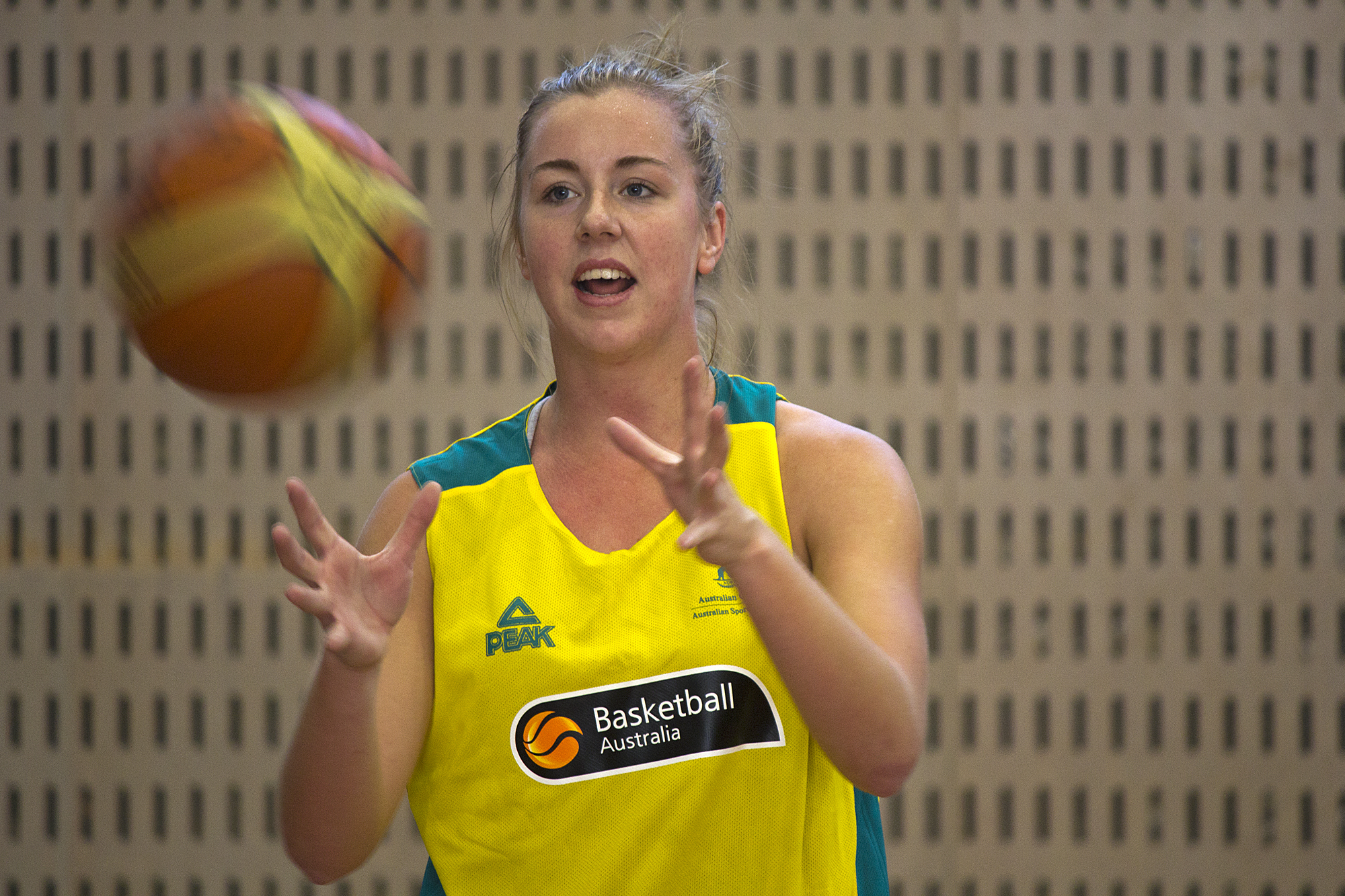 Rachel Jarry at the Opals camp held at the Australian Institute of Sport.